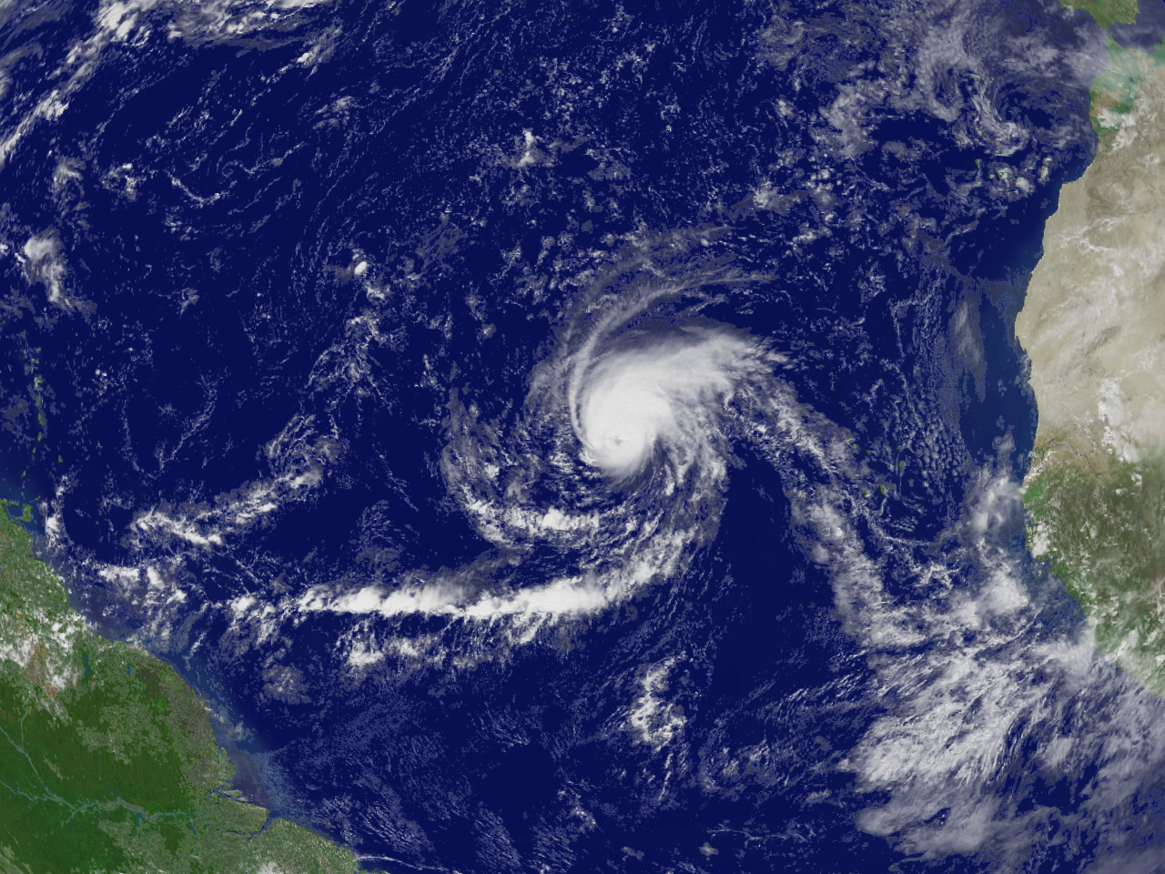 Hurricane Fred is located west of the Cape Verde Islands, with maximum sustained winds near 100 MPH.